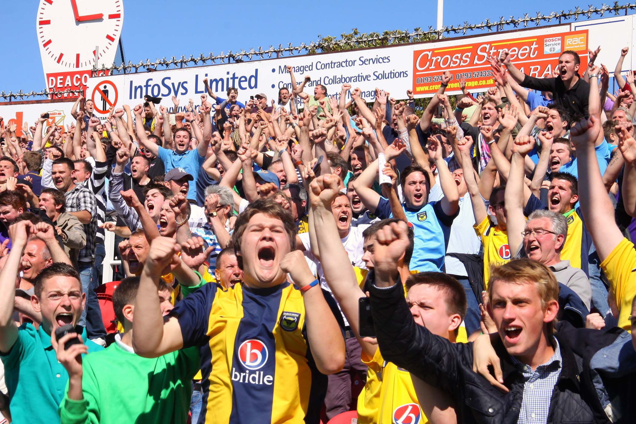 Happy fans in the County Ground, Oxford United supporters in the Stratton Bank stand at Swindon Town's County Ground.